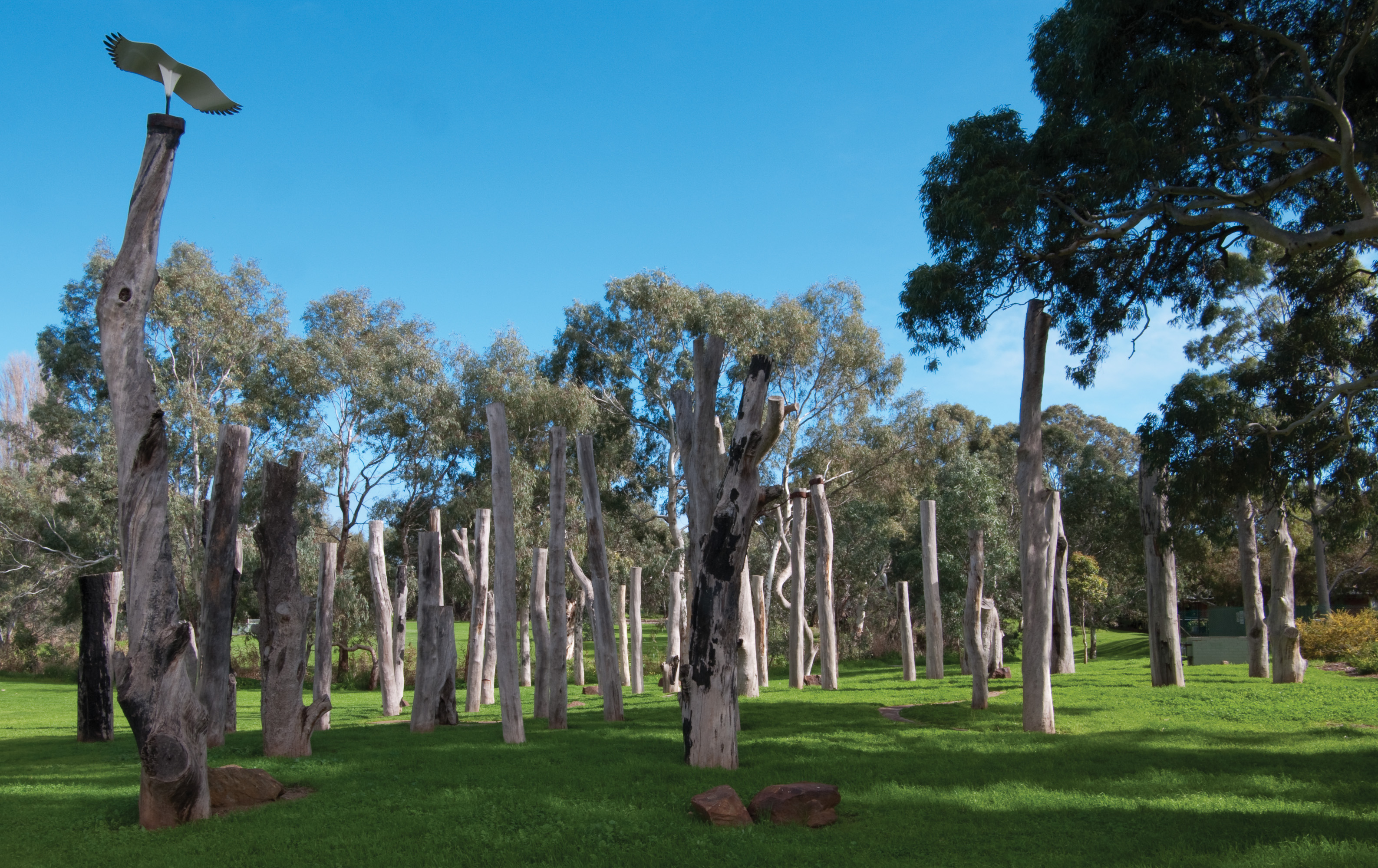 Tjilbruke narna arra, Tjilbruke Gateway, is a work by artists Sherry Rankine, Margaret Worth and Gavin Malone. Located at Warriparinga, the installation represents the Kaurna people's Tjilbruke Dreaming, telling of his journey south bearing the body of his dead nephew.